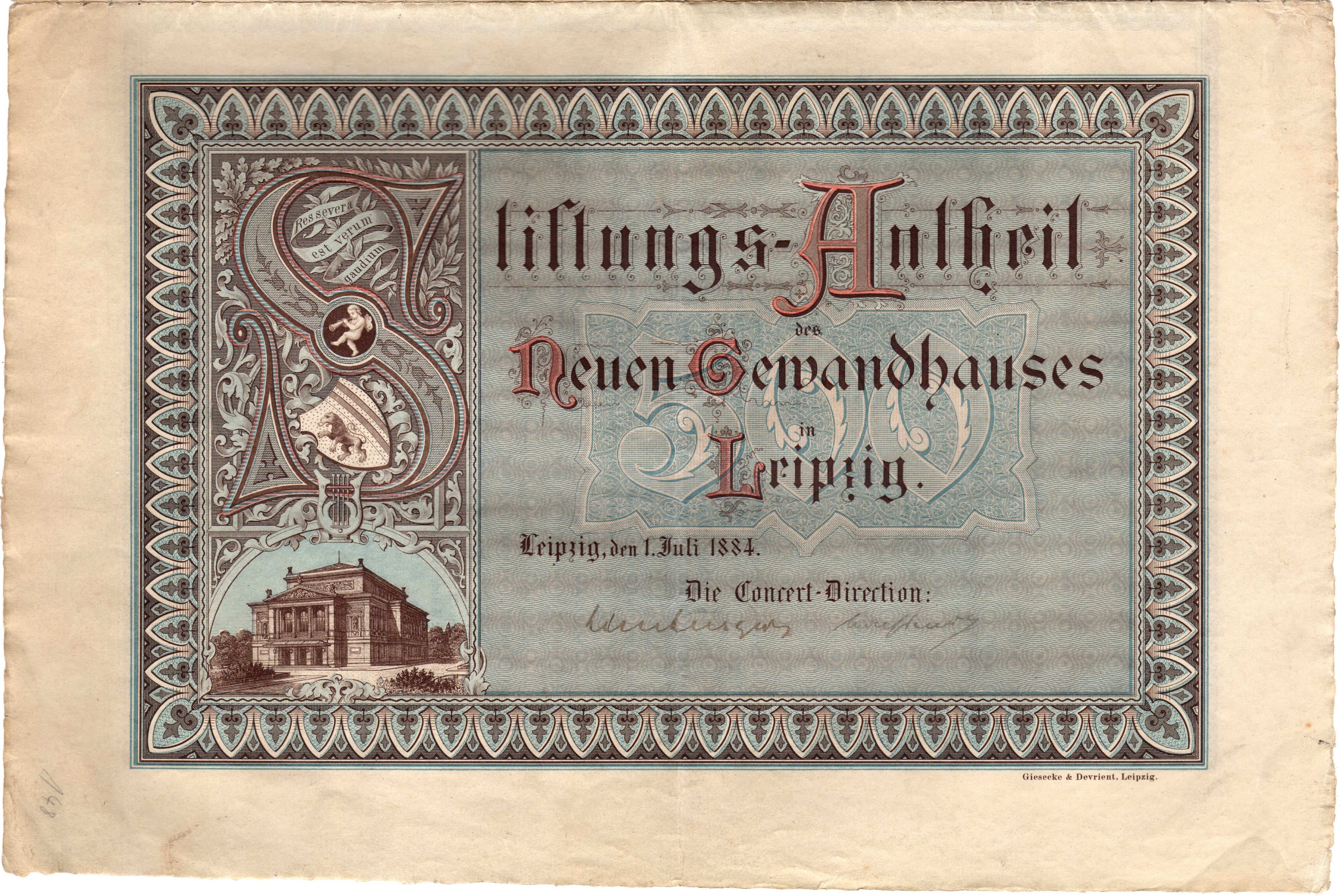 Share of the Neues Gewandhaus trust, issued 1. July 1884